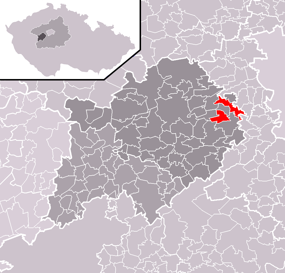 Location of Vysoký Újezd municipality within Beroun District and administrative area of Beroun as a Municipality with Extended Competence. Municipality of Lužce divides the territory of Vysoký Újezd in two parts.